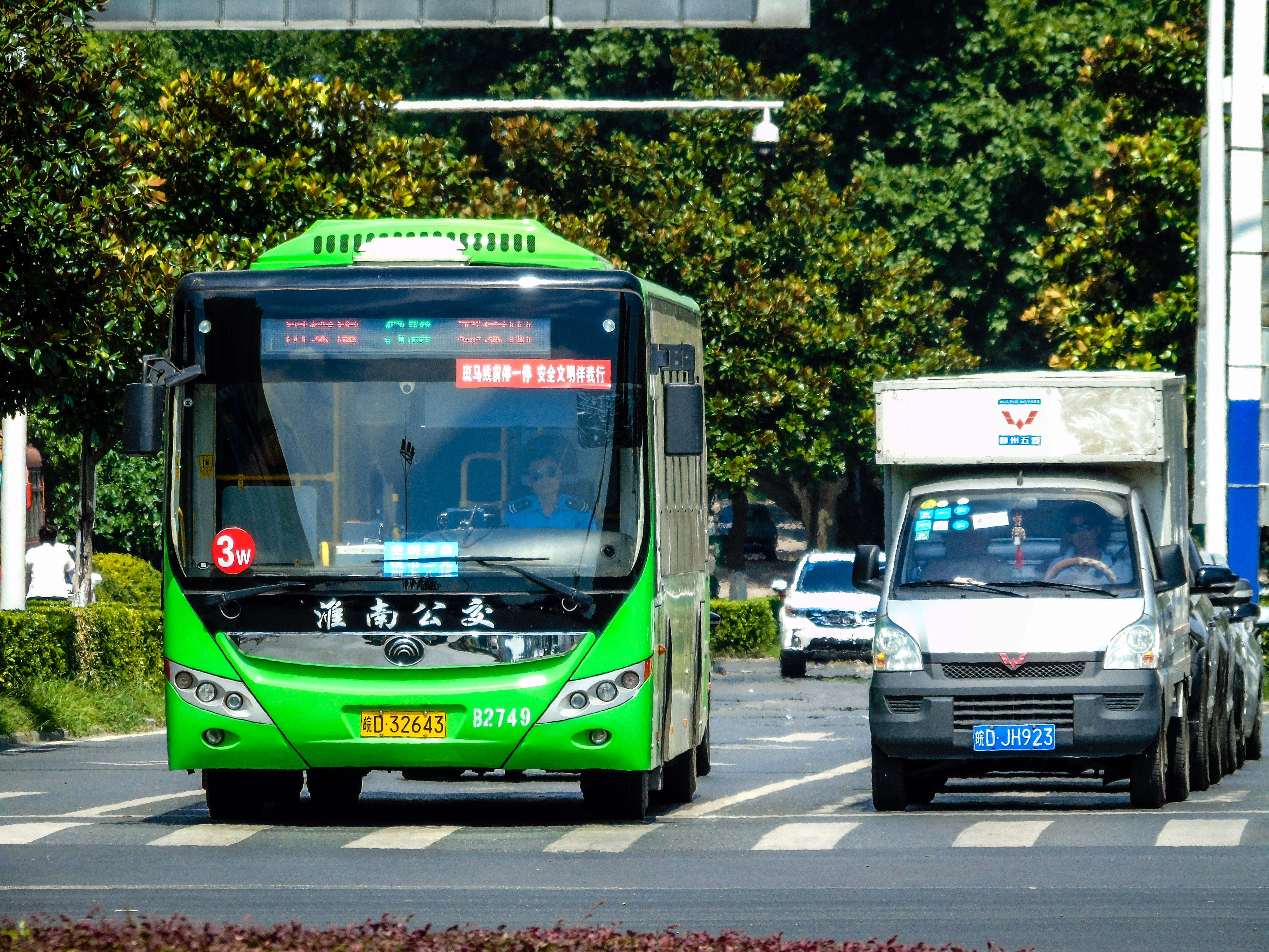 Huainan Bus No.3